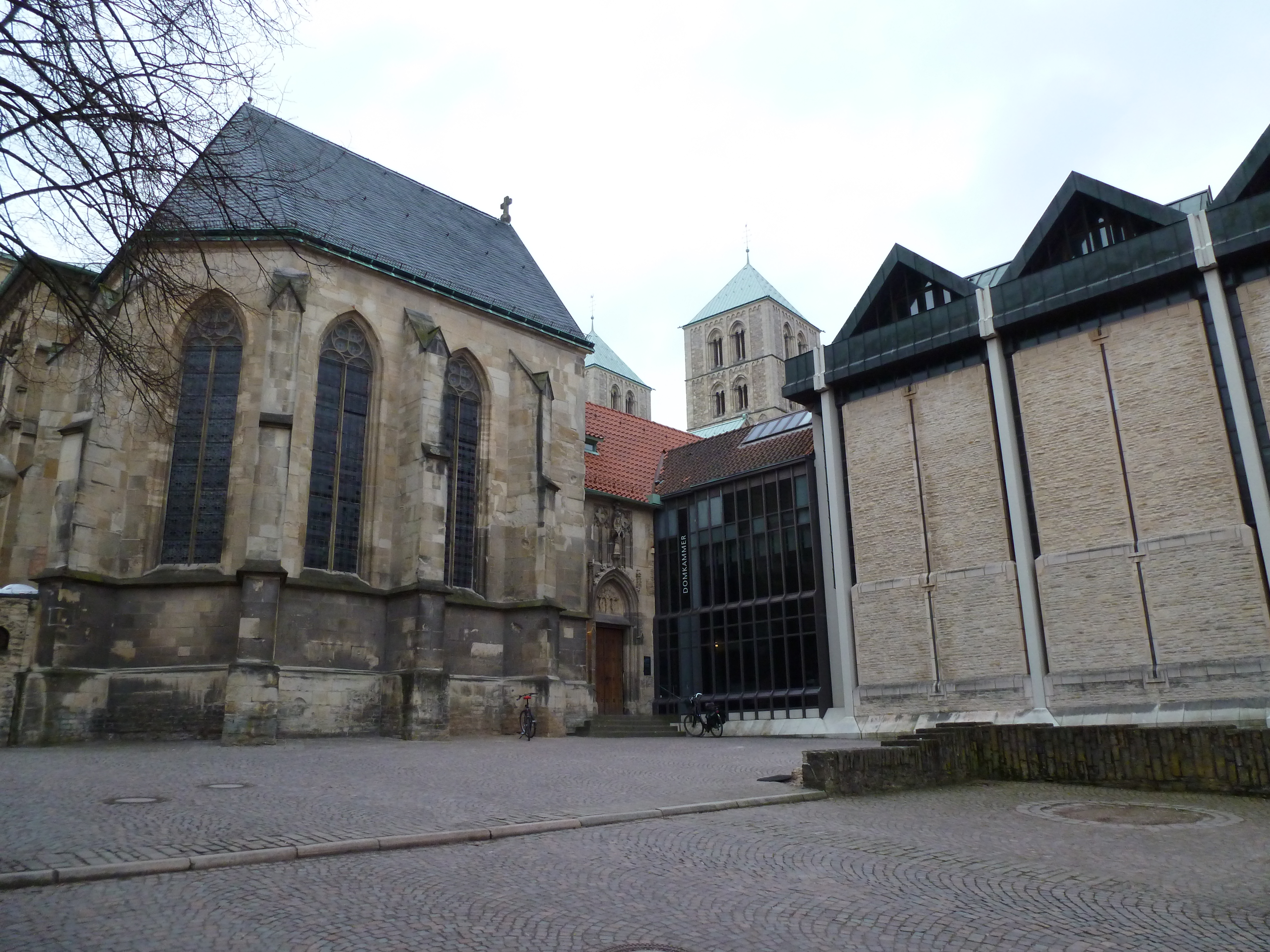 Detailansicht Paulusdom von außen